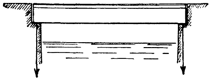 Iron beam bridge